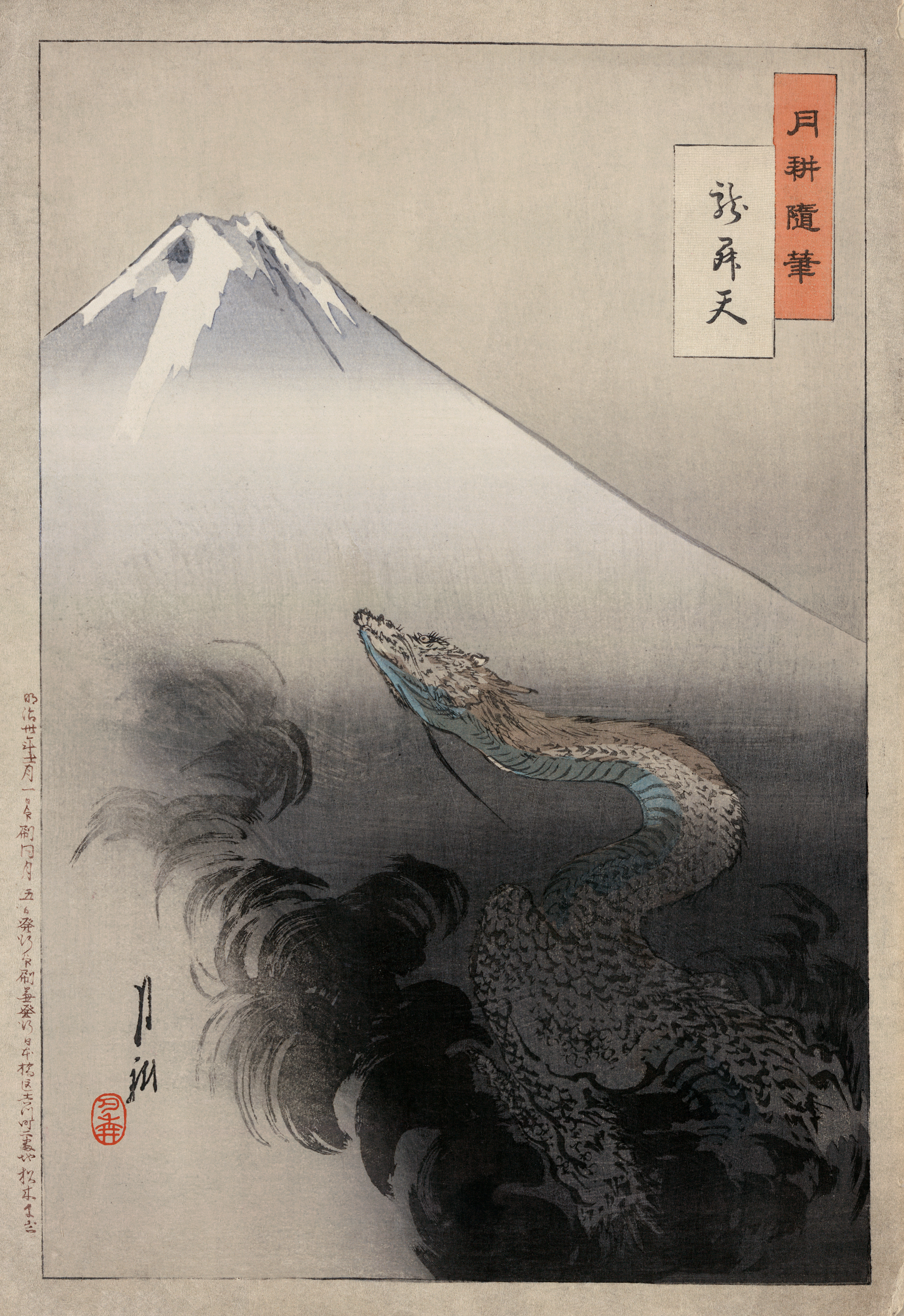 "Ryu sho ten" or "Ryu shoten" (Dragon rising to the heavens), also known as "Gekko Zuihitsu" (Gekko's Sketch), a Ukiyo-e print from Ogata Gekko's Views of Mt. Fuji. A dragon rises out of smoke near Mt. Fuji, ascending towards the sky. The text on the left hand side is in an archaic form of Japanese writing that includes characters not in common use any more. translation follows: 明治卅年十一月一日印刷同月五日発行印刷兼発行日本橋区吉川町二番地松木平吉 Printed on Nov 1st, 30 of Meiji [1897], published on the same month 5th. Printed and published by Heikichi Matsuki, who lives 2 Yoshikawa, Nihonbashi ward. Thanks to 利用者:kzhr, 利用者:青子守歌, Ceridwen, 利用者:Tonbi_ko for translation help.